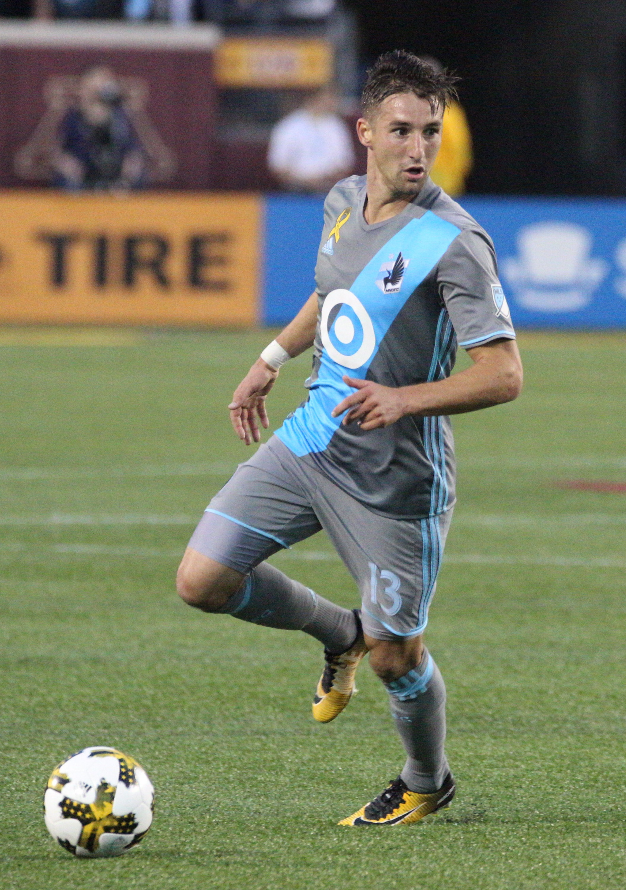 Ethan Finlay - Philadelphia Union - Minnesota UNITED - MLS - Soccer